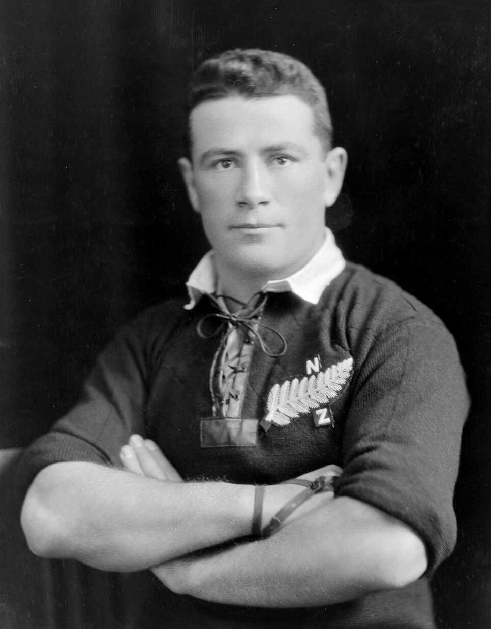 Photograph of All Black Brian McCleary with an injured finger, taken by Crown Studio Ltd of Wellington.